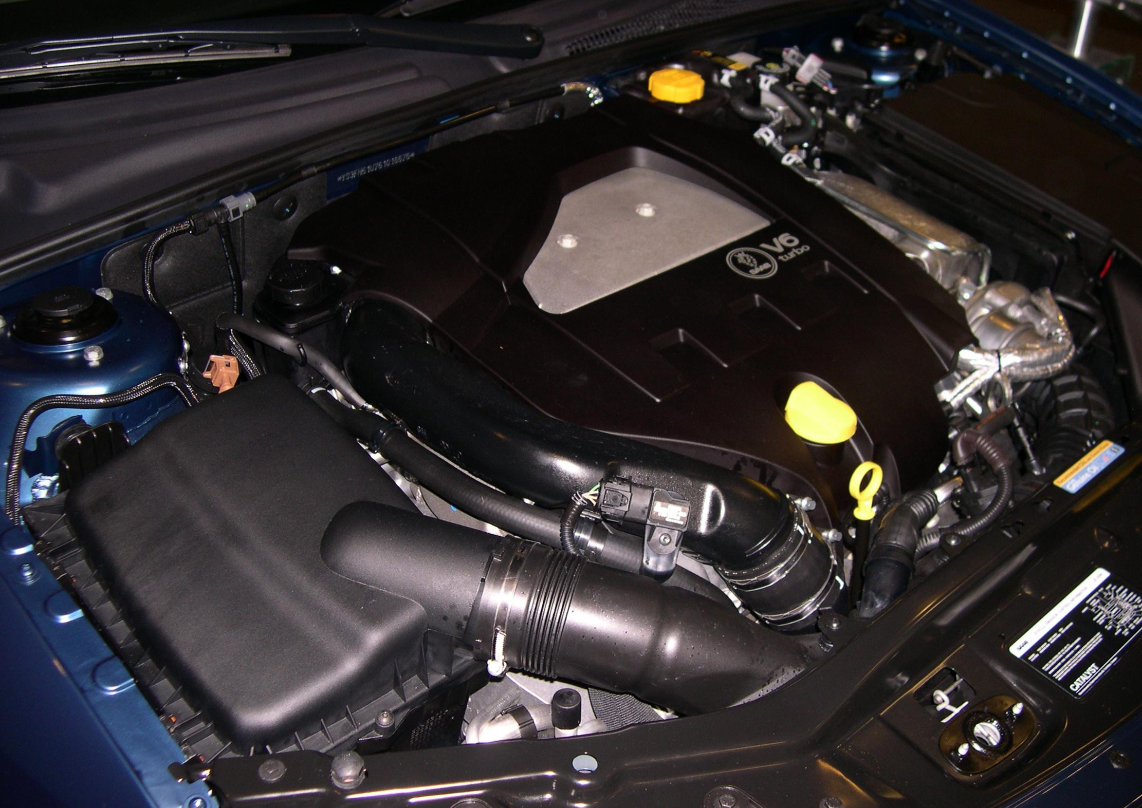 2006 Saab 9-3 SportCombi 2.8 L GM High Feature turbo V6 engine